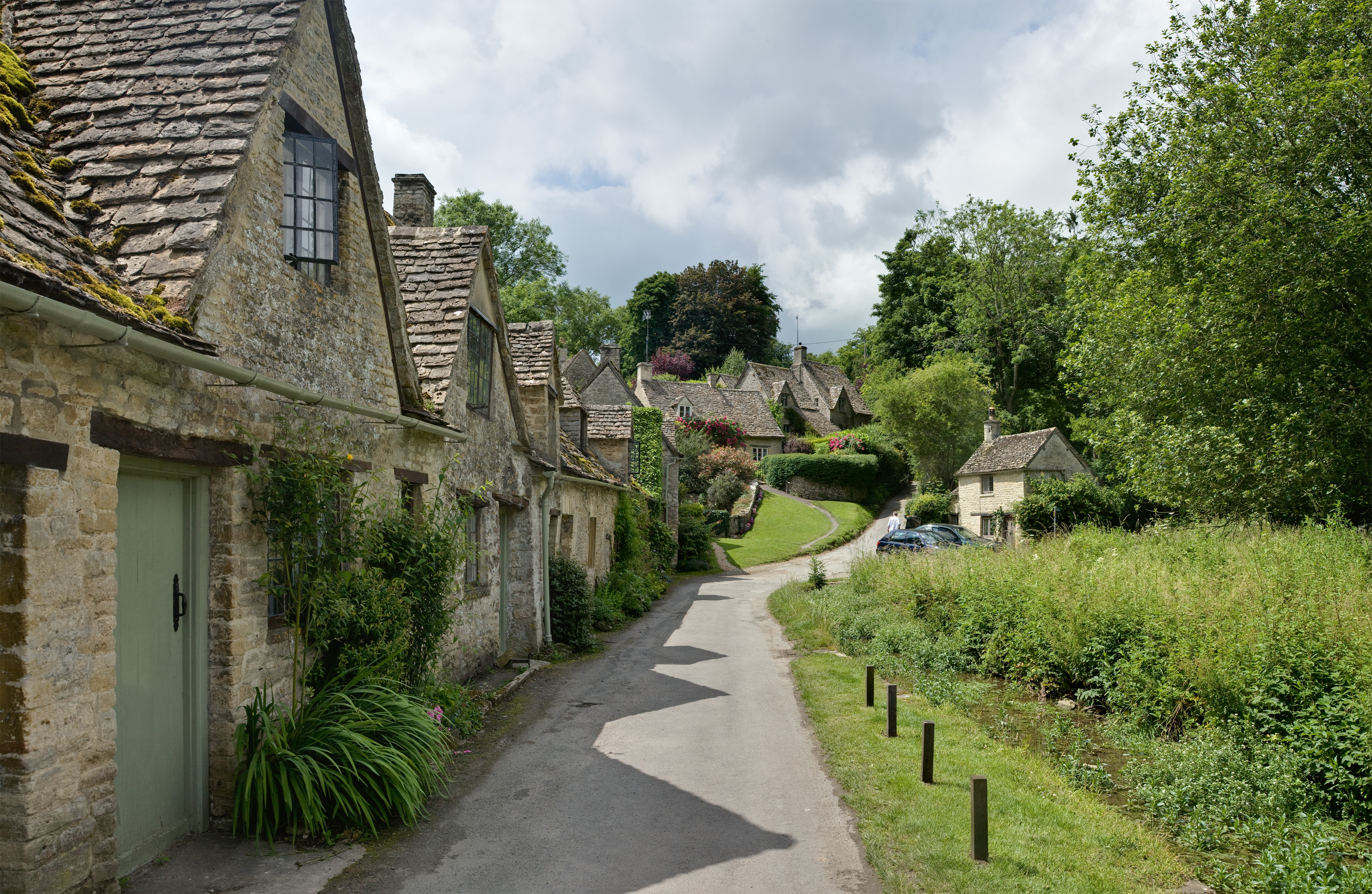 A row of cottages in Bibury, Cotswolds, England.